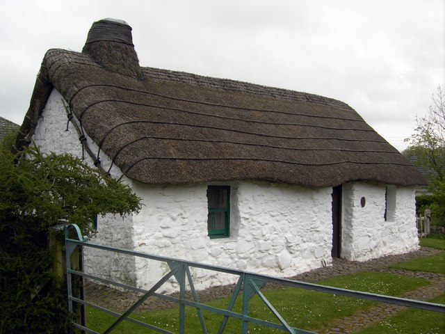 The Cruick Cottage The Cruck Cottage, Shieldhill Road, Torthorwald, Dumfries, Scotland, was originally constructed in the mid 18th century or thereabouts. It is of the ‘cruck’ construction common at that time, i.e. the main supports consist of oak crucks or trunks, which support the roof. The roof consists of counter tie beams and branch rafters, laid with heather turf, and thatched with rye straw. The original walls would be of clay or turf, but are now built with rubble and lime mortar.